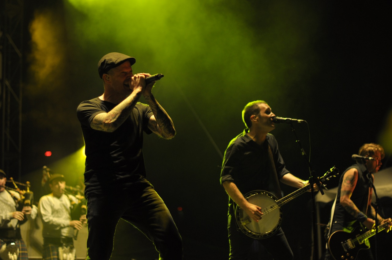 DropkickMurphys_Dig_fenway14